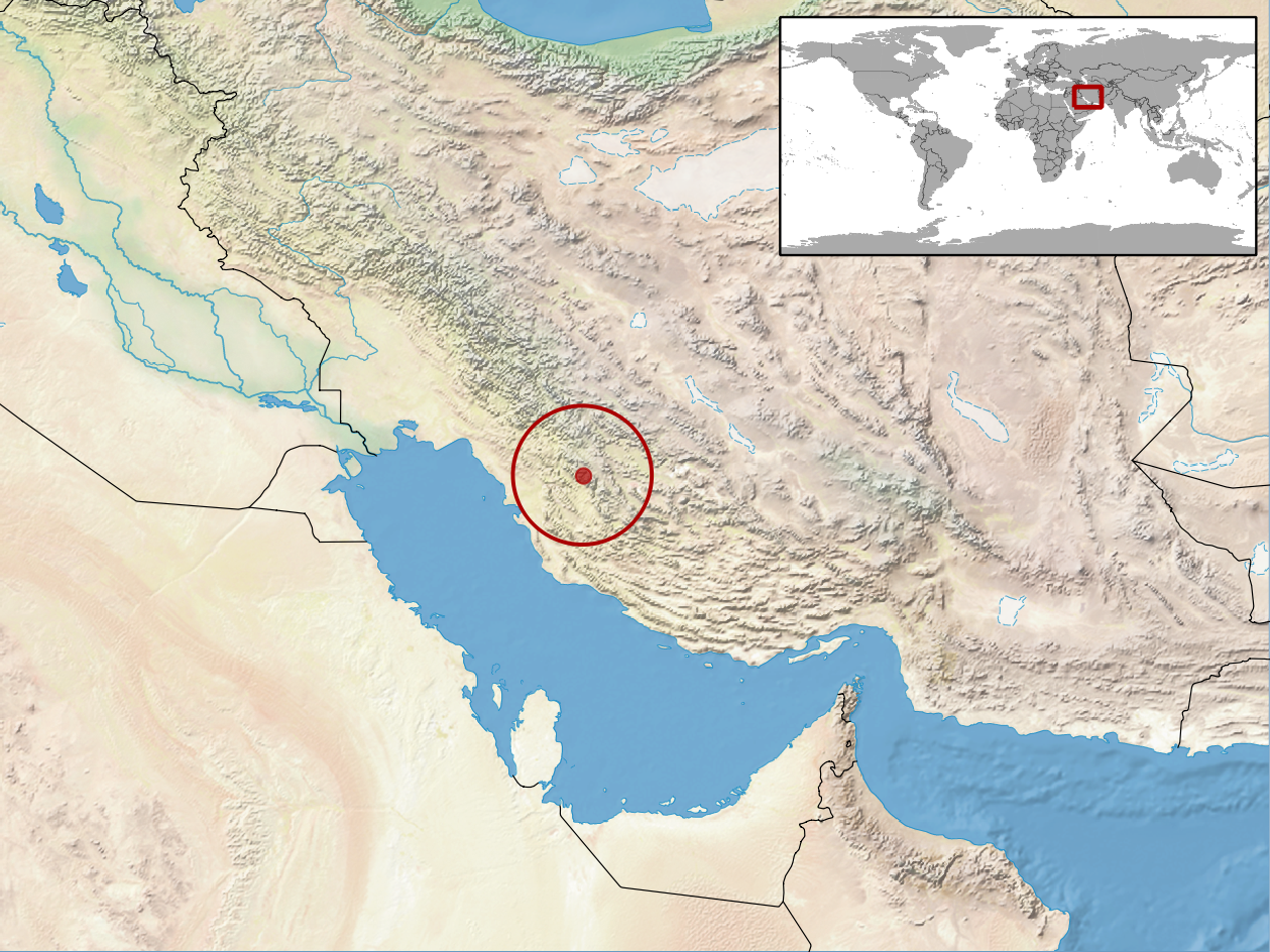 geographic distribution of Eirenis rechingeri (Native: Iran, Islamic Republic of)